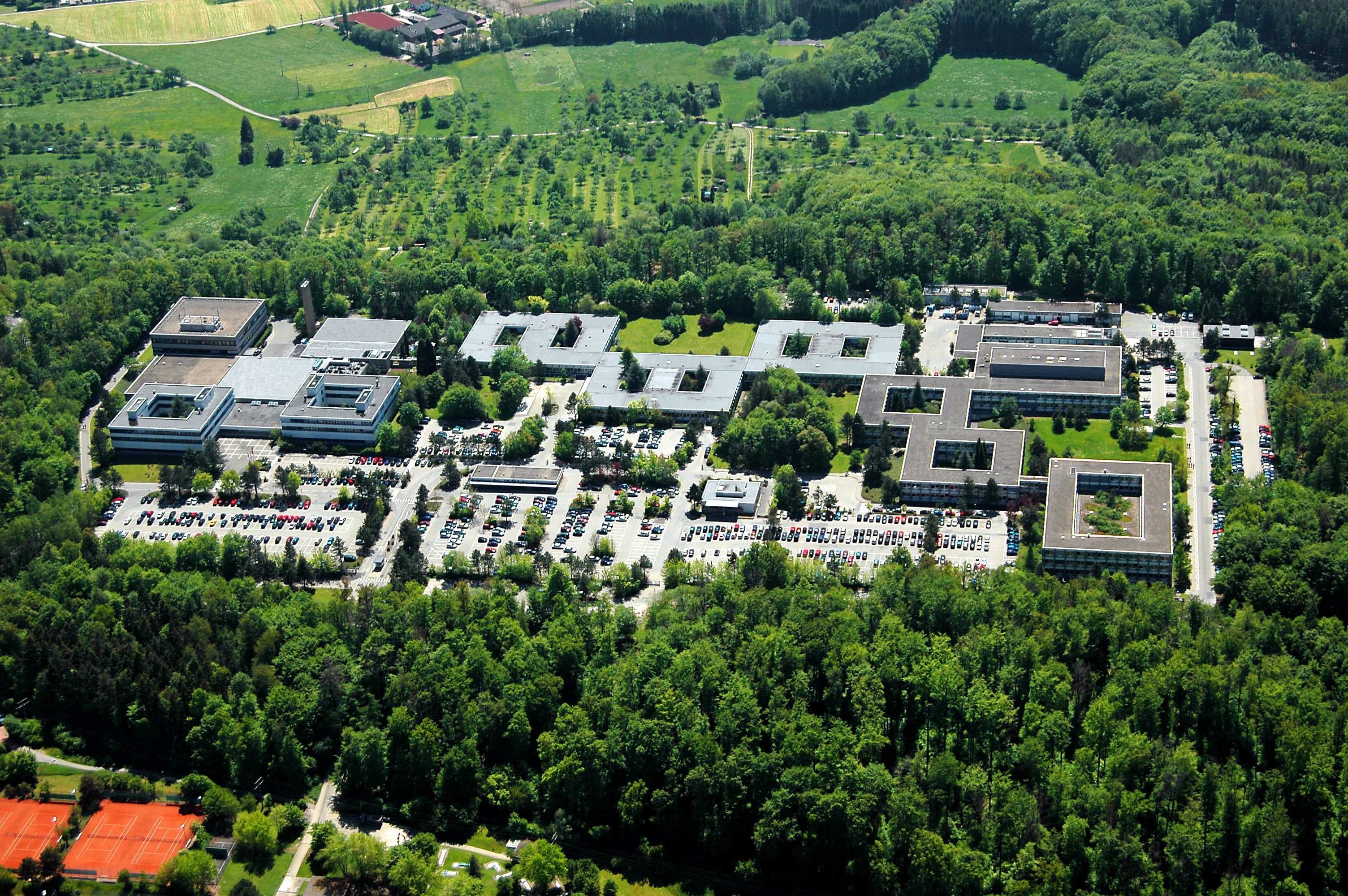 Luftaufnahme des Hauptsitzes der IBM Deutschland Research & Development GmbH in Böblingen